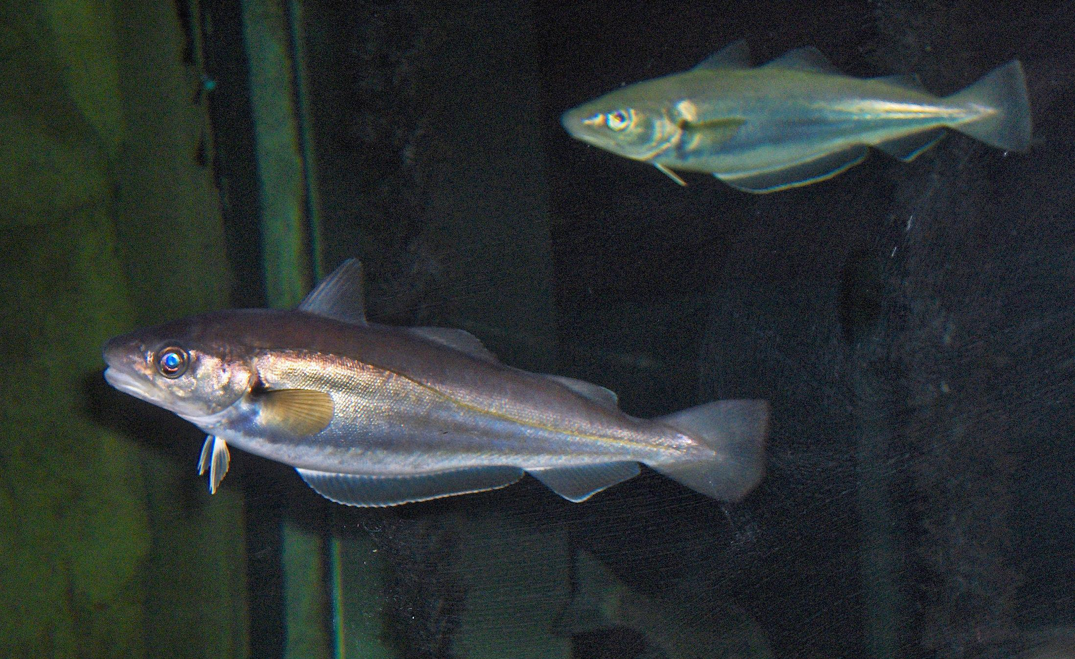 Whiting